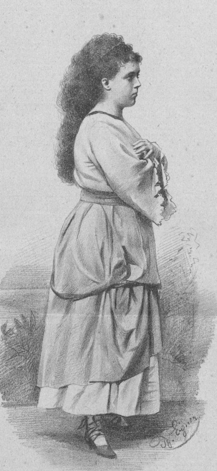 Austrian soprano Bertha Ehnn (1847-1932), playing role Mignon (in same-named opera), 1885 in Wien